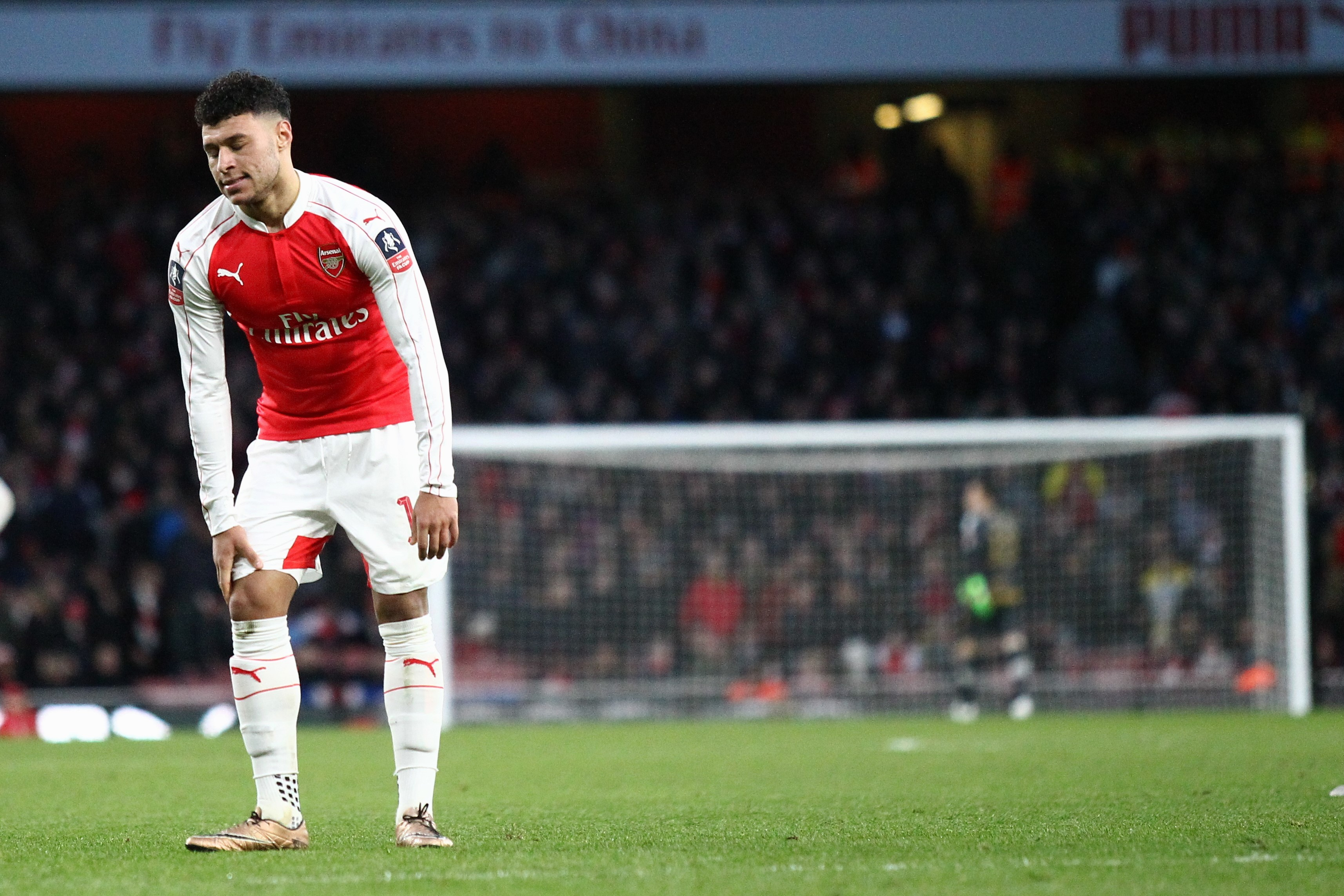 Alex Oxlade-Chamberlain of Arsenal during the game against Burnley.